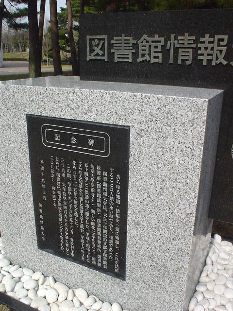 Memorial of University of Library and Information Science